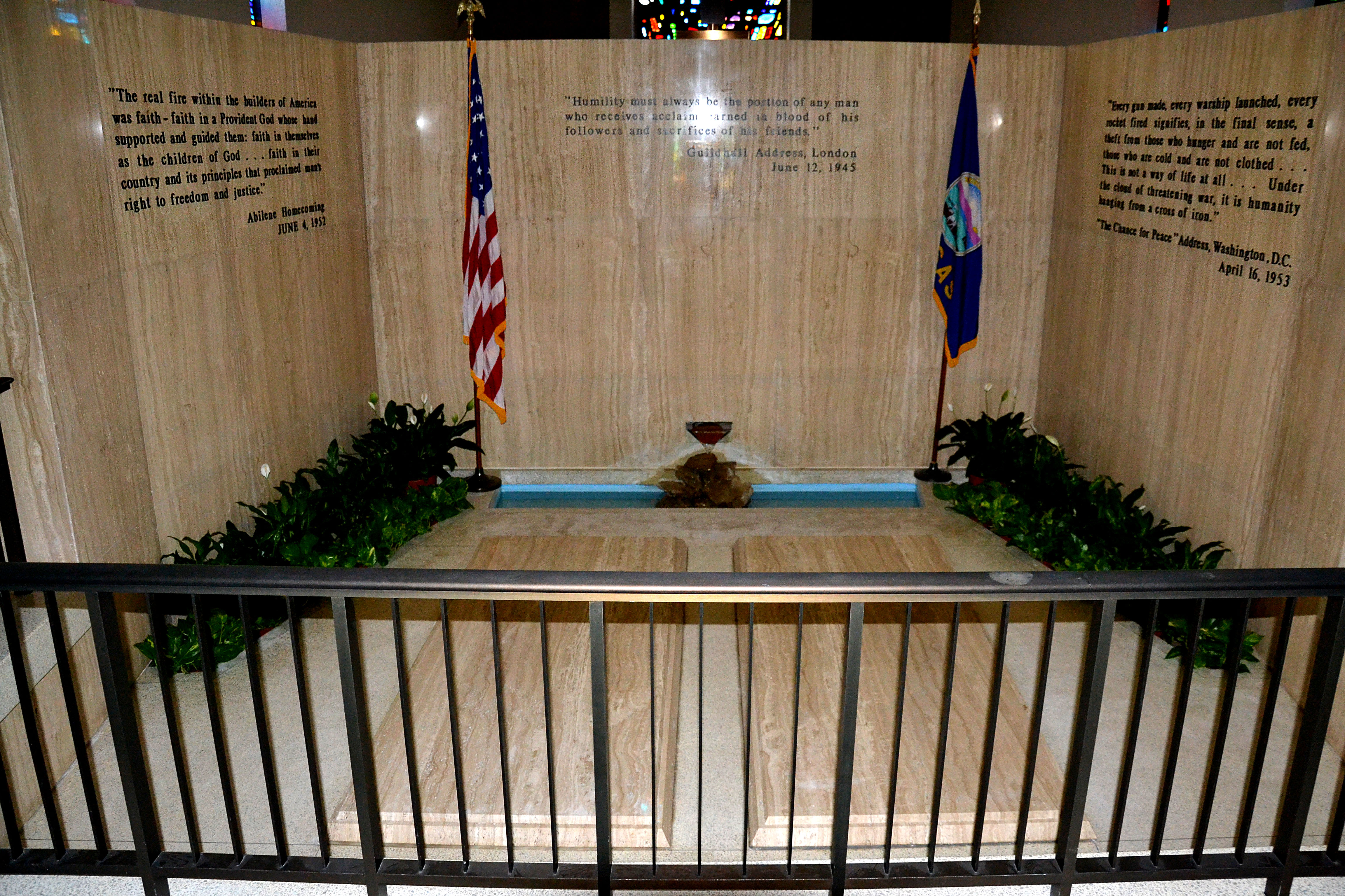 graves of: President Dwight D. Eisenhower (October 14, 1890 – March 28, 1969) Doud Dwight "Icky" Eisenhower (September 24, 1917 - January 2, 1921) First Lady, Mamie Eisenhower (November 14, 1896 – November 1, 1979)